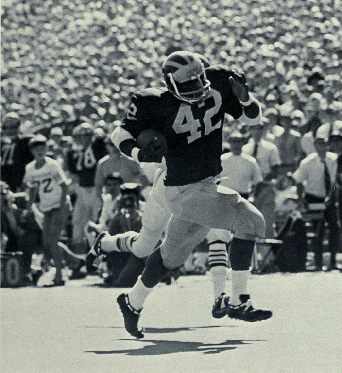 Photograph of Billy Taylor (No. 42)